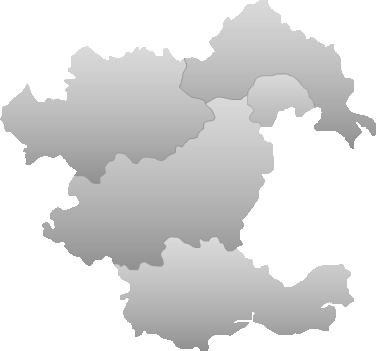 Map of Jieyang in Guangdong province.